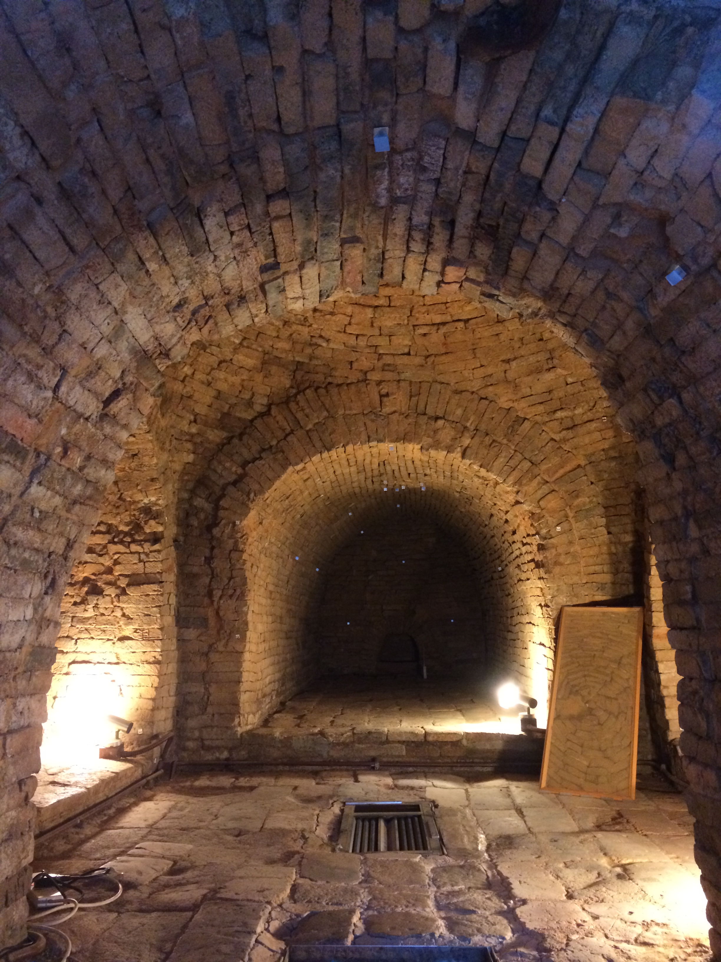 A declared monument in Hong Kong, this picture was taken inside the Eastern Han Dynasty (25-220 AD) Lei Cheng Uk tomb